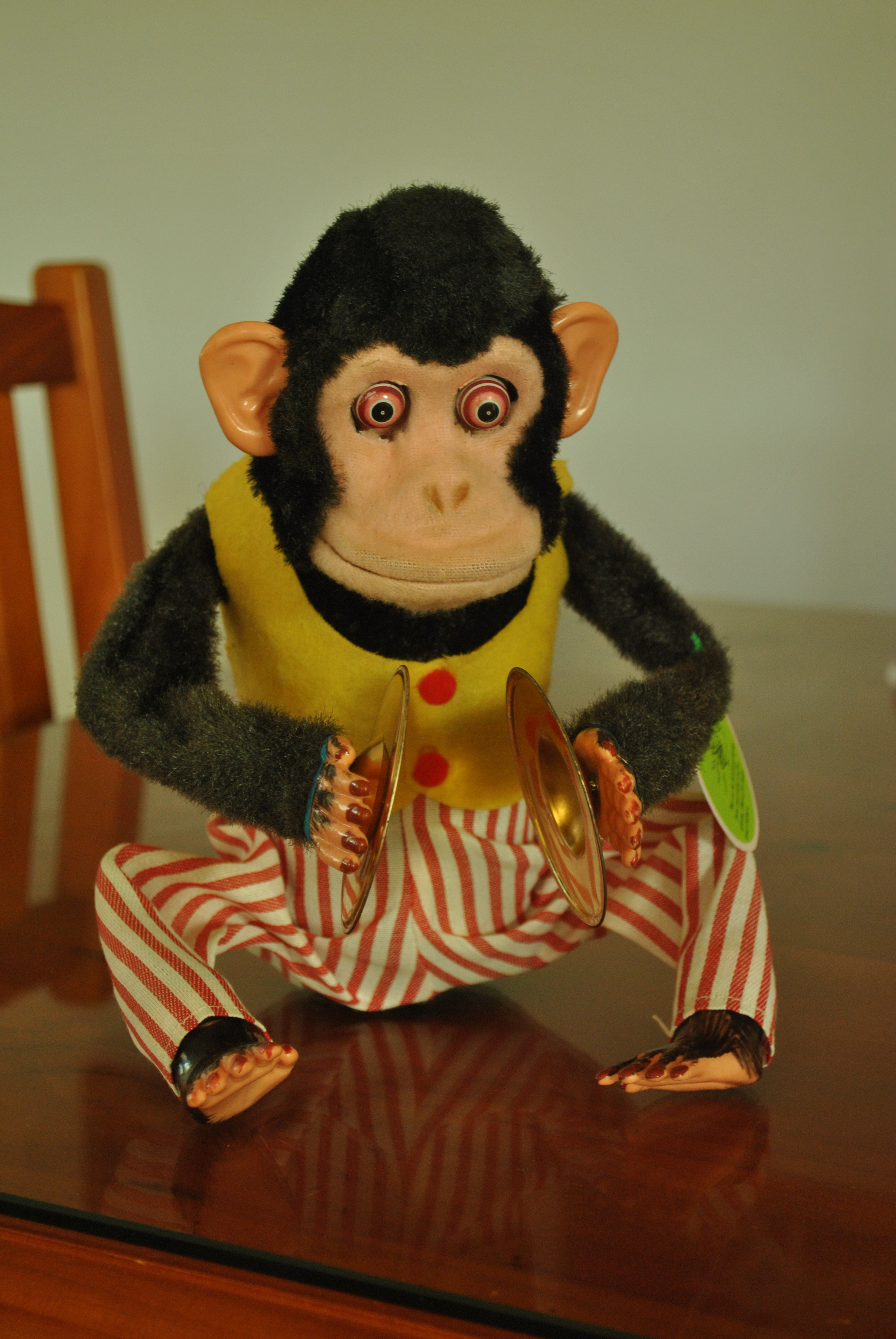 Image of a musical jolly chimp manufactured by the Japanese company, Daishin C.K. (Green tag on its left arm is an imitation)